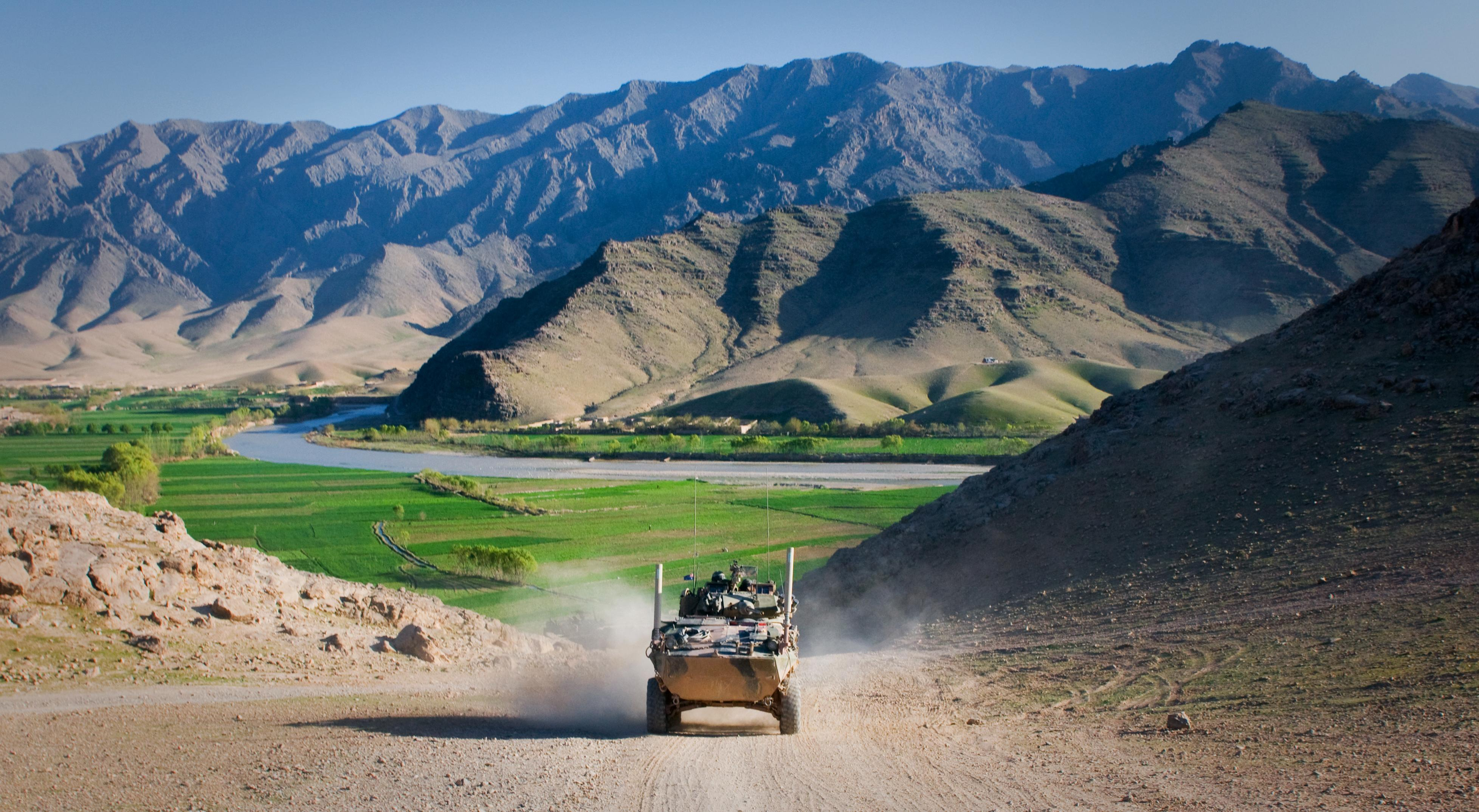 An Australian service light armored vehicle drives through Tangi Valley, Afghanistan, March 29. The terrain of Tangi Valley is notoriously rough, but the ASLAV maneuvers across it with ease, said Australian army Lt. McLeod Wood, a troop leader for 2nd Cavalry Regiment, Mentoring Task Force 2, Combined Team Uruzgan.